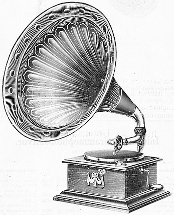 Original Swedish caption: Song- and musicinstrument o 2722 is the most perfect and advanced product of its type. The running of instrument causes no specially noticeable and screeching by-sound, so the instrument sounds all compositions audibly and as clearly as possible. The base size 22 X 16 cm and the soundtube diameter 45 cm. The instrument has a fine outlook, with a fine base and artistic decorations. Price FIM 85:- per piece